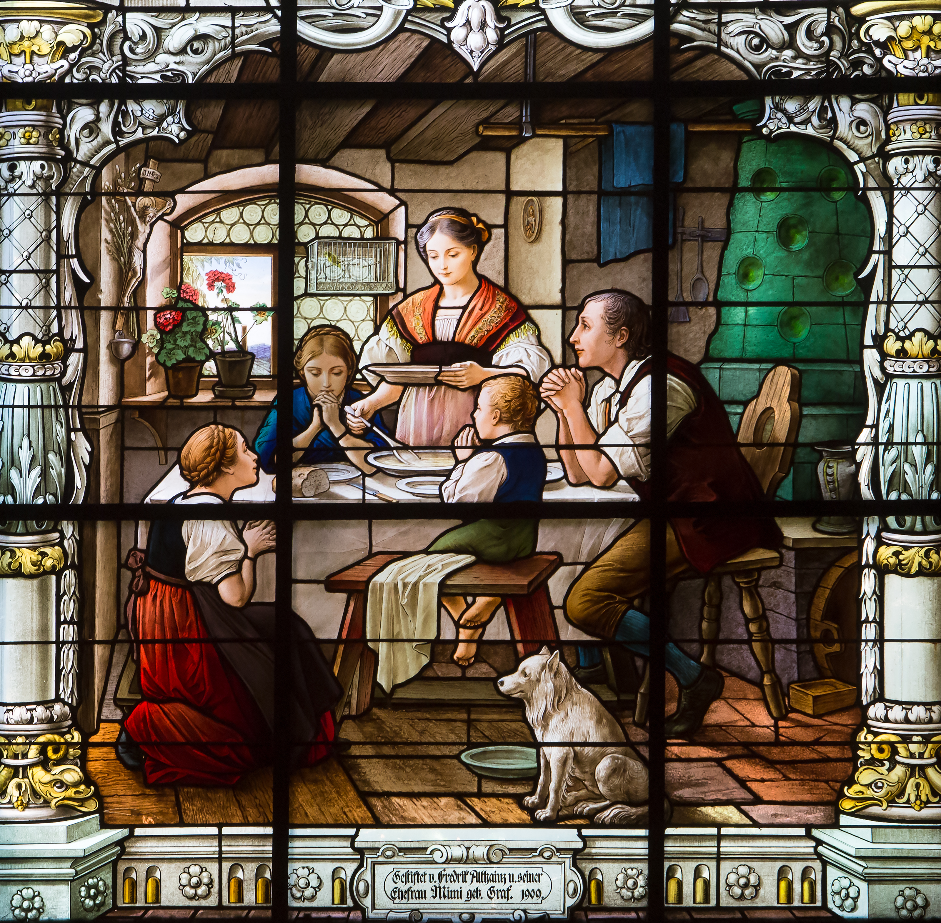 Grace at a stained glass window in the German Church of Stockholm.